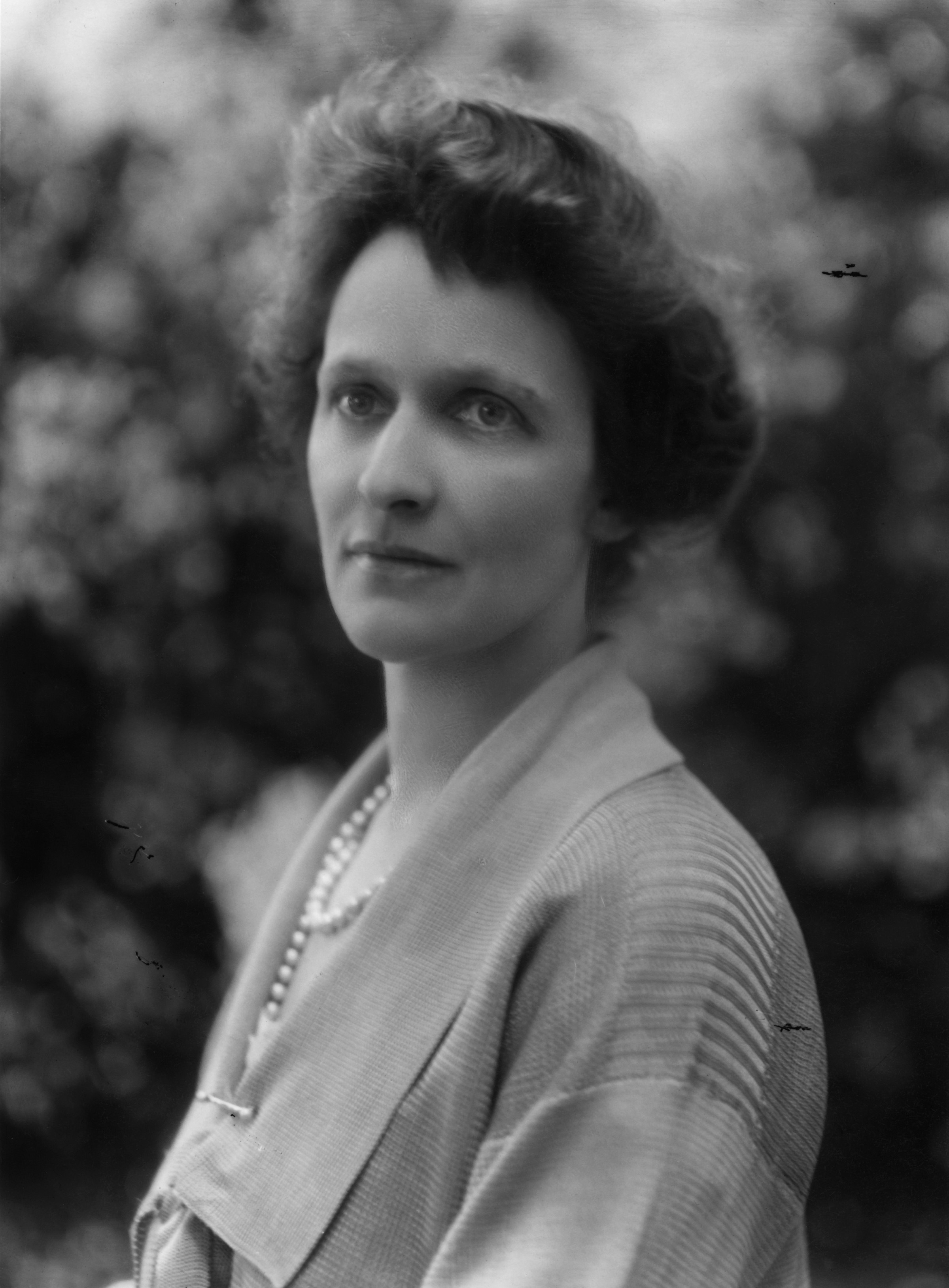 Depicted person: Nancy Astor, Viscountess Astor – first female Member of Parliament to take her seat